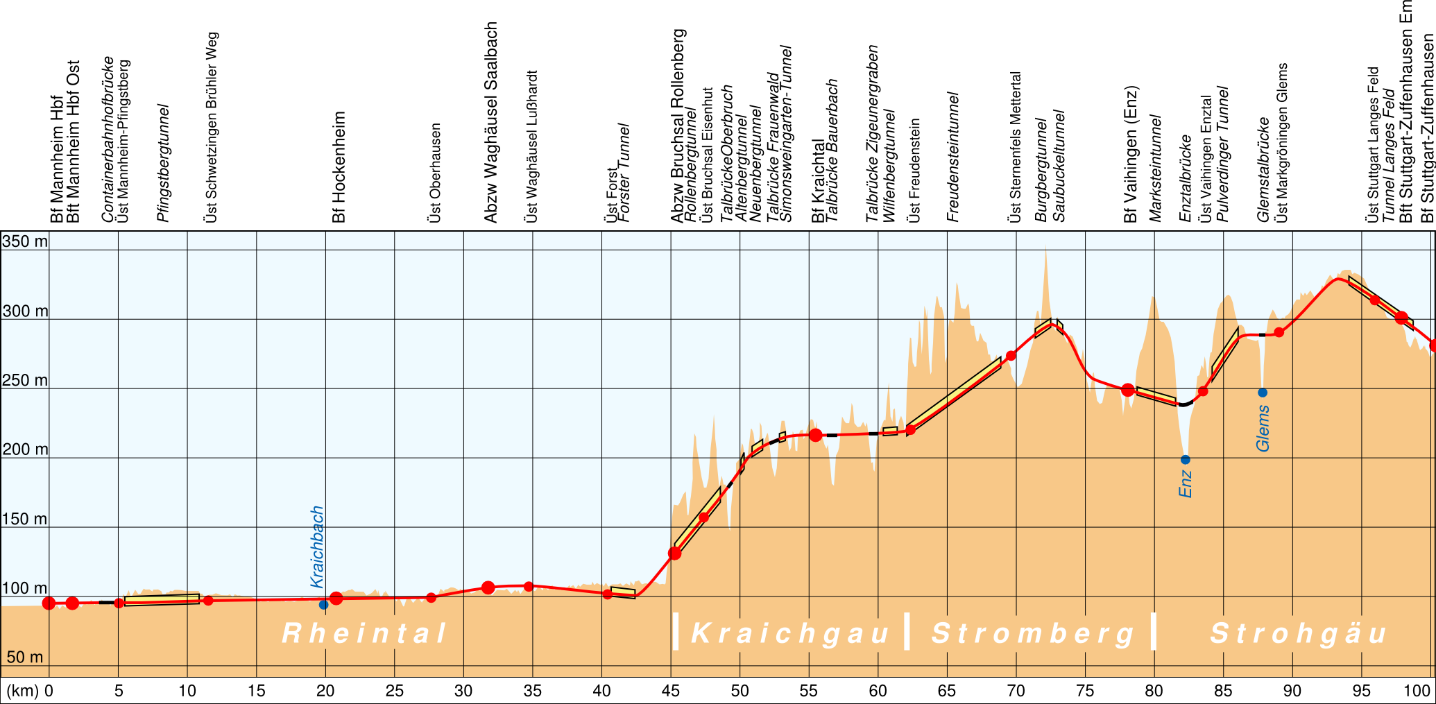 profile of high speed track Mannheim–Stuttgart.